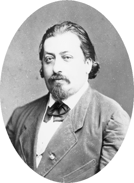 Henryk Wieniawski ( July 10, 1835 Lublin, Congress Poland, Russian Empire - March 31, 1880 Moscow) was a Polish composer and violinist.